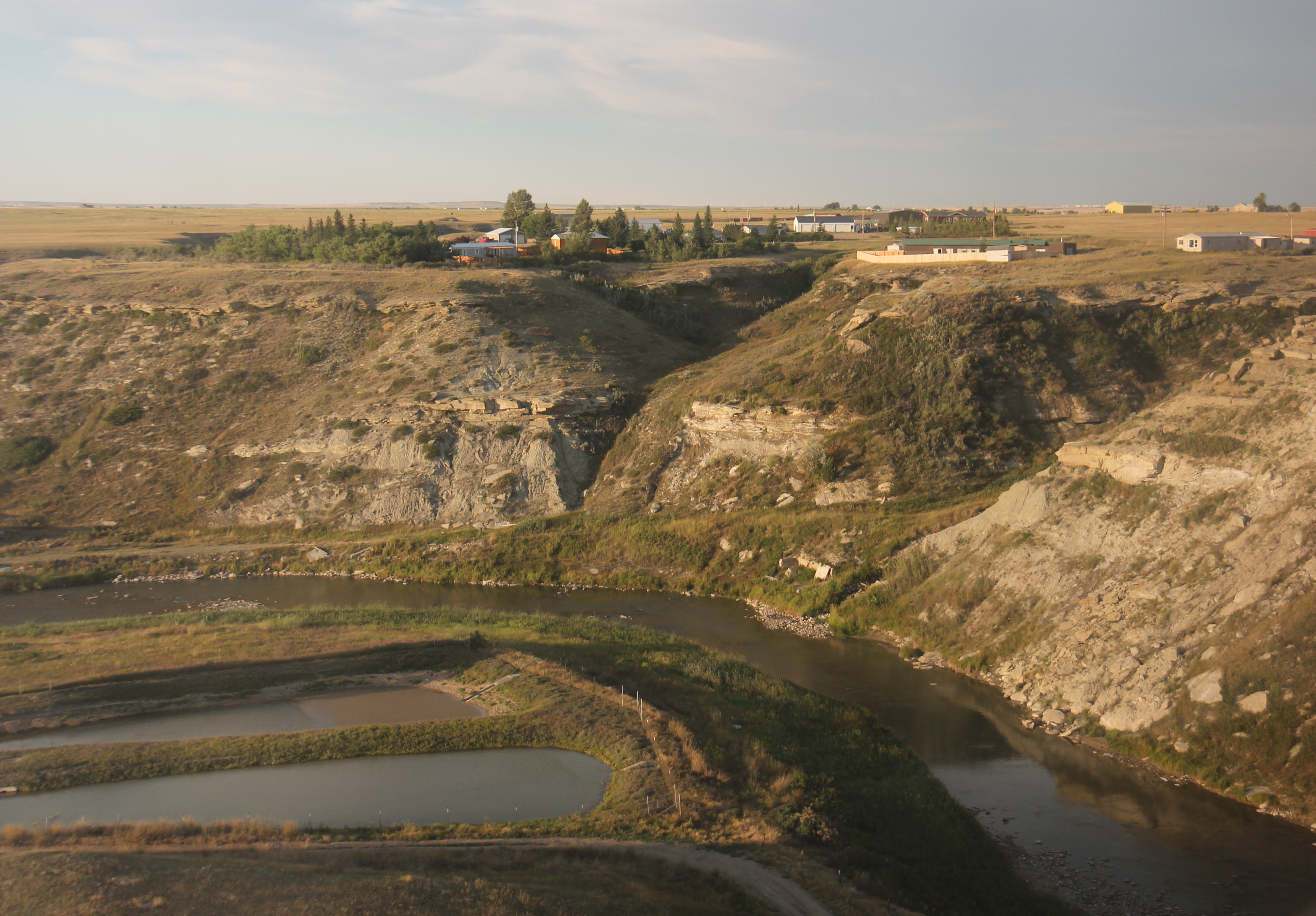 Looking down on the Cut Bank Creek and some houses in the city of Cut Bank, Montana from the trestle bridge.